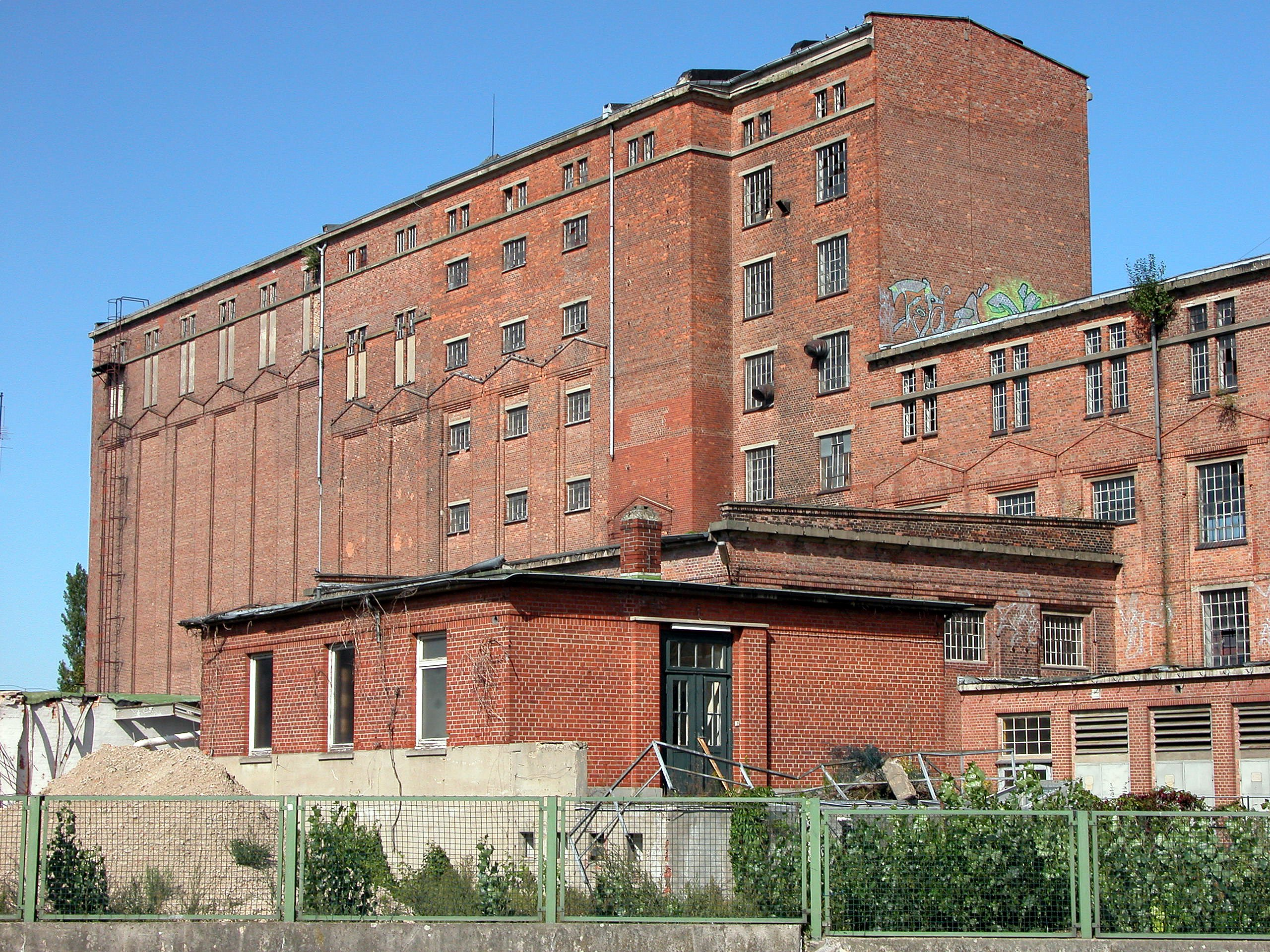 Silo Gesamtansicht. Braunschweig, Germany: Rye Mill Lehndorf. Silos.